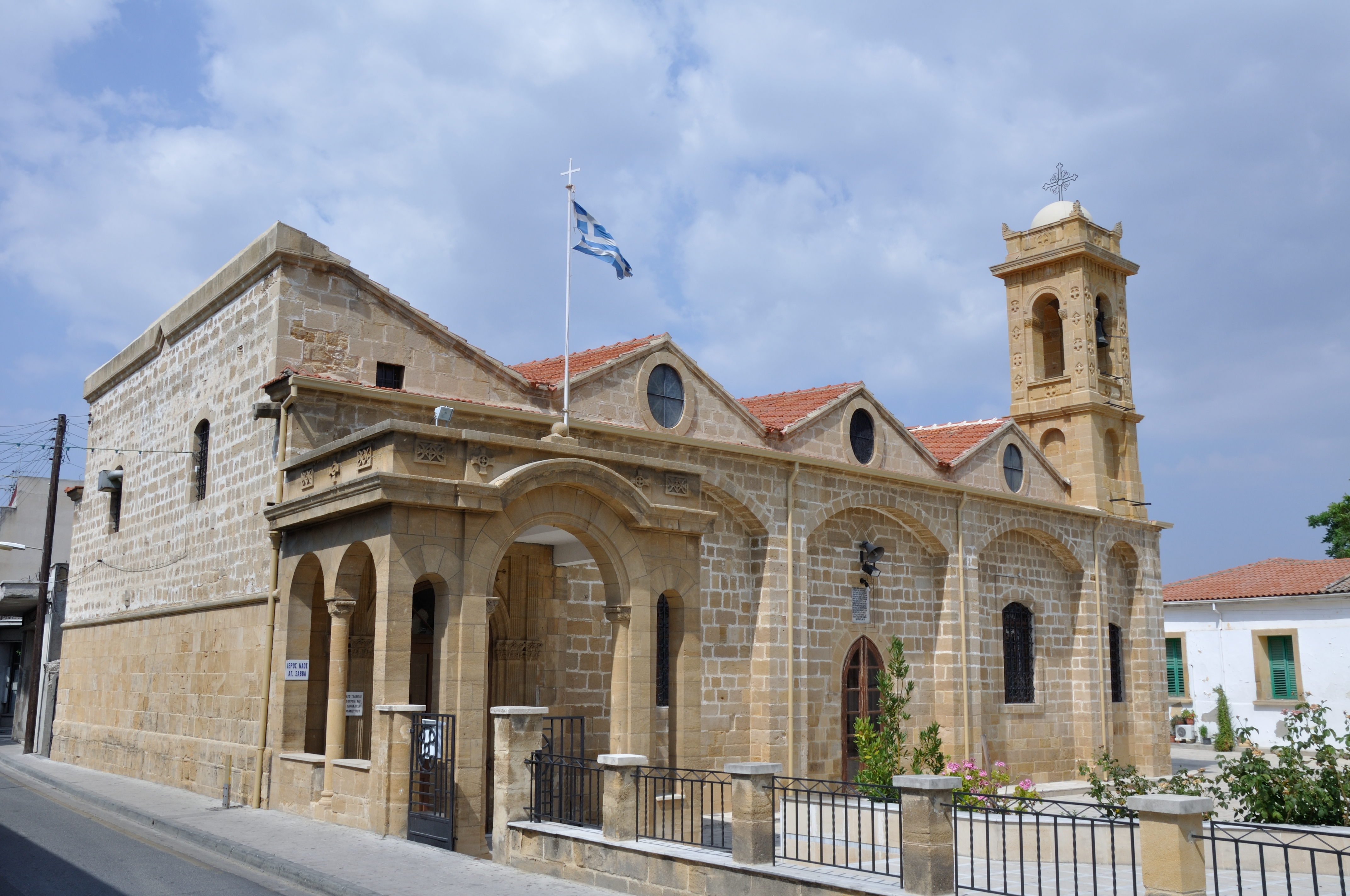 Cyprus, views of Nicosia